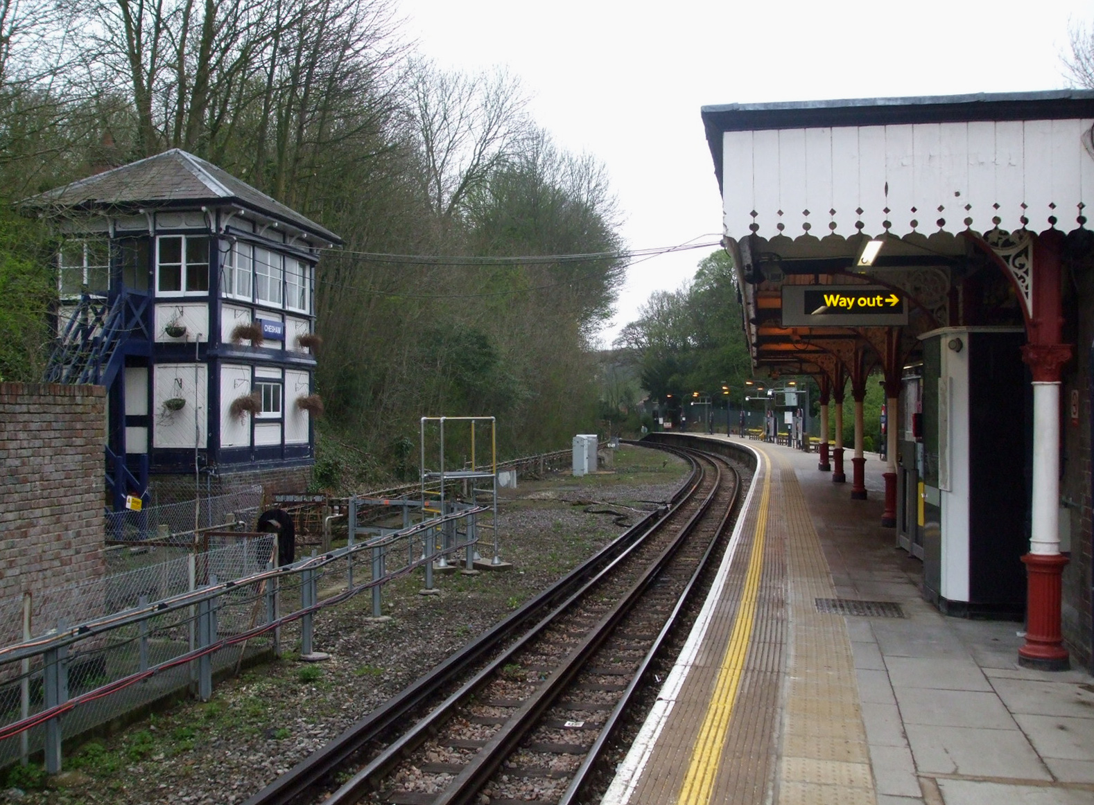 Chesham tube station looking south.